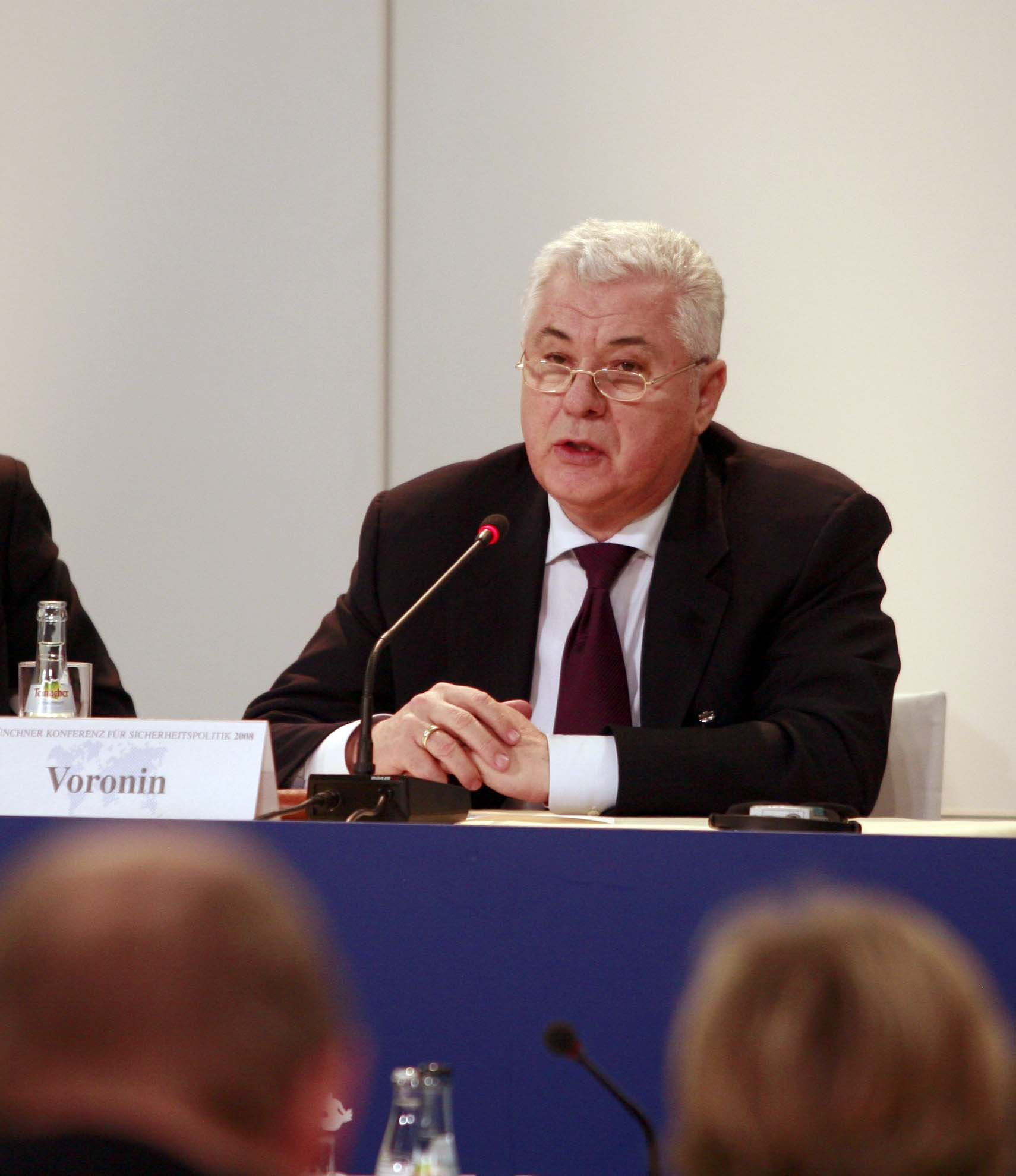 44th Munich Security Conference 2008: The President of the Republik Moldova, Vladimir Voronin, during his speech.